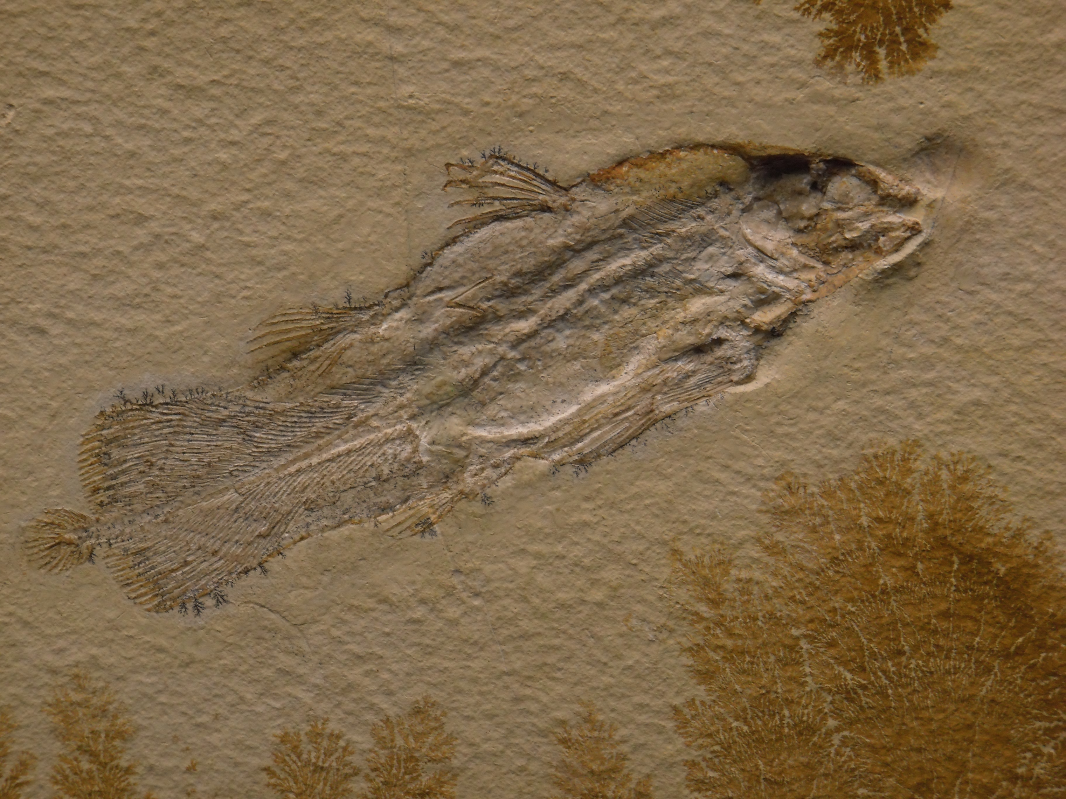 Jurassic Coelacanth fossil